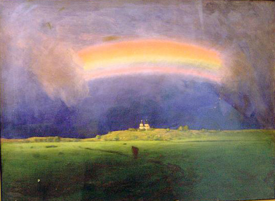 Rainbow (painting by Arkhip Kuindzhi, 1898-1905)